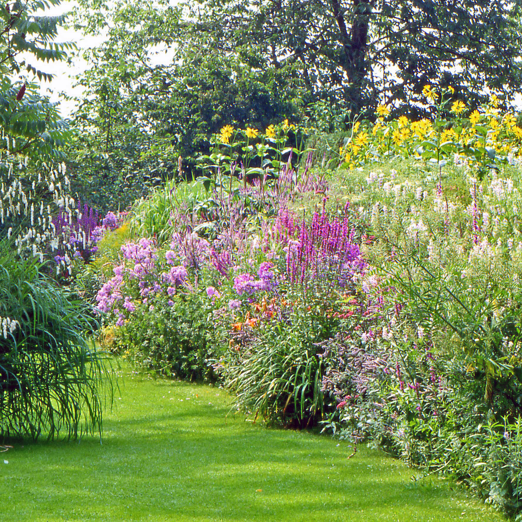 Detail of the Sun border